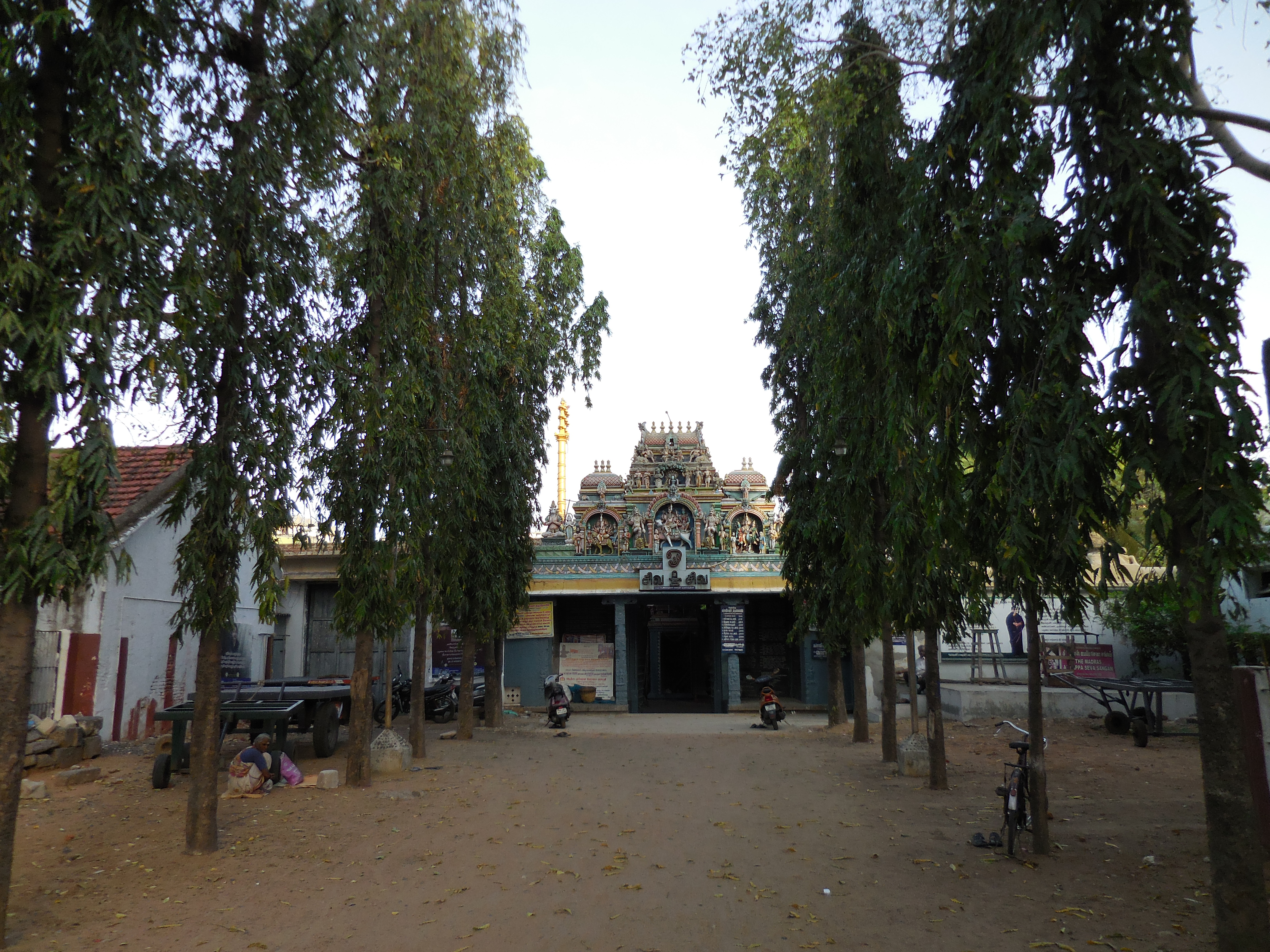 Front view of Kacchaaleeshwarar Koil, Chennai, taken on 21-Jun-2014 at 6:48 am